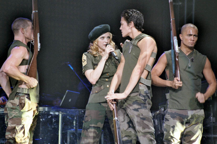 concert